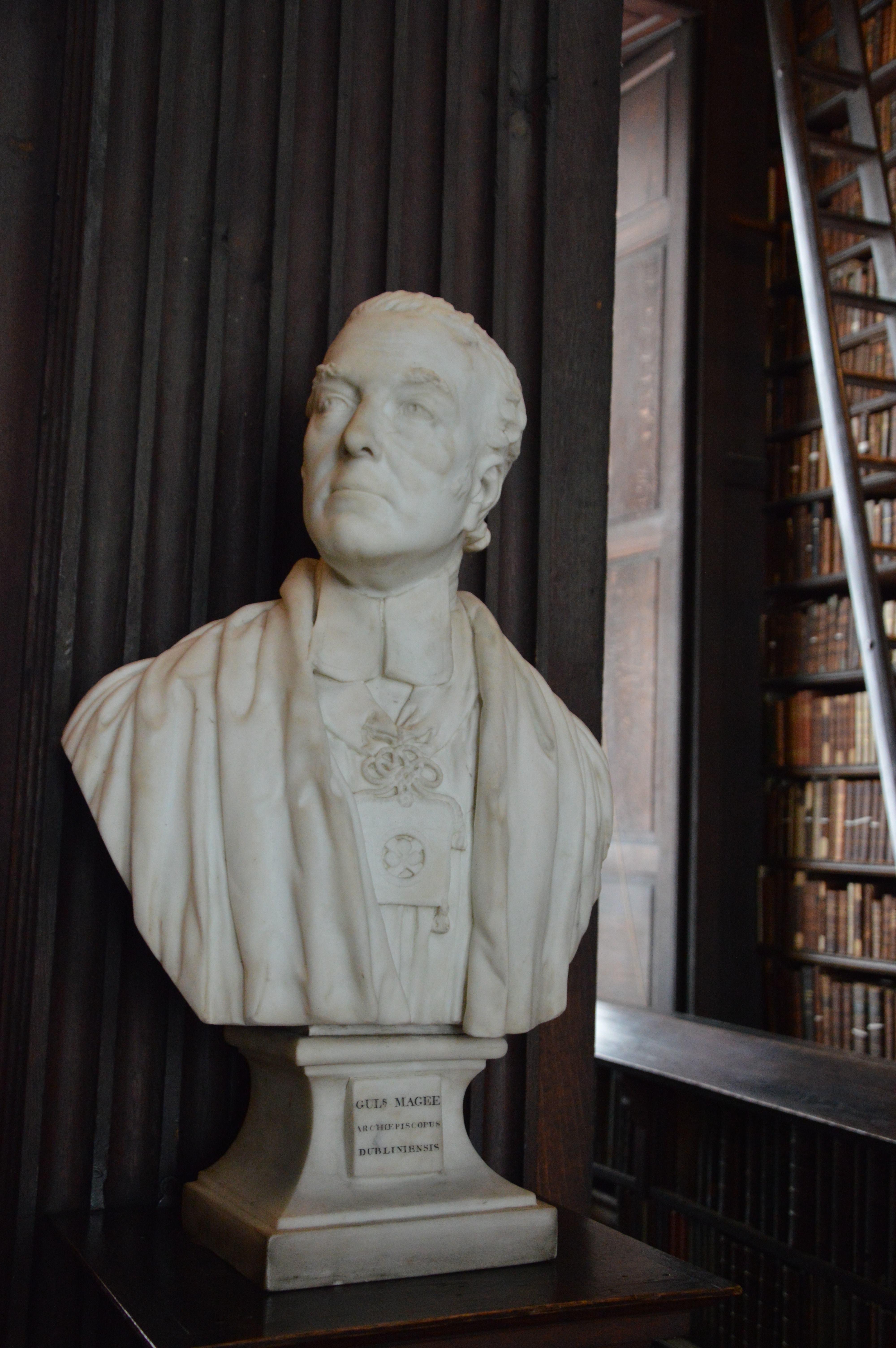 Thomas Kirk's bust of William Magee (archbishop of Dublin) in the Long Room of the Old Library, Trinity College, Dublin.